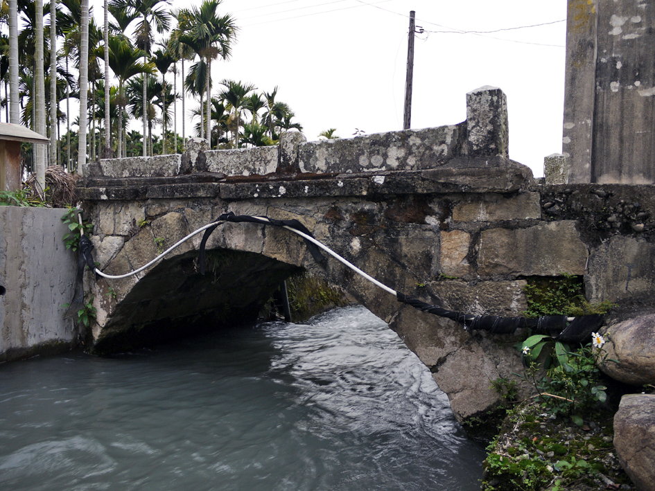 Dongshi Golden Bridge, Dongshi District, Taichung City, Taiwan